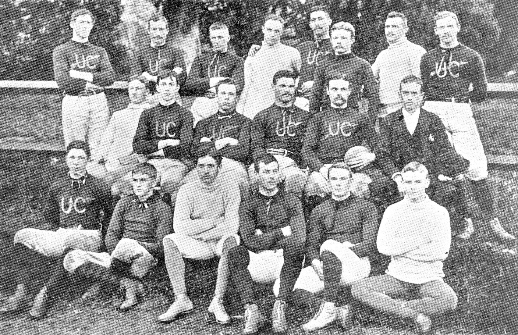 The University of California ("Golden Bears") football team that would play the first "Big Game" v. Stanford that same year.